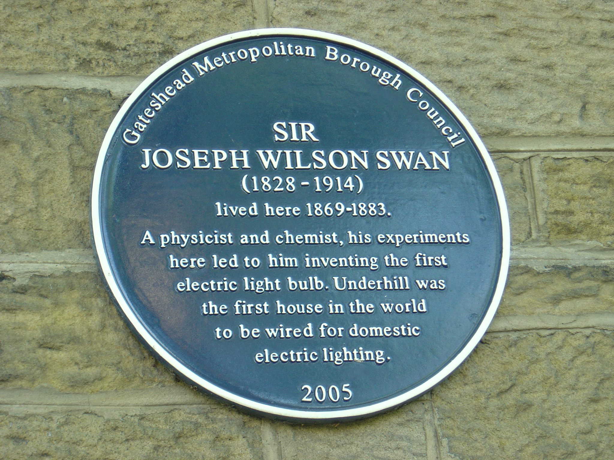 Gateshead blue plaque commemorating Swan, the investor of the incandescent light bulb.